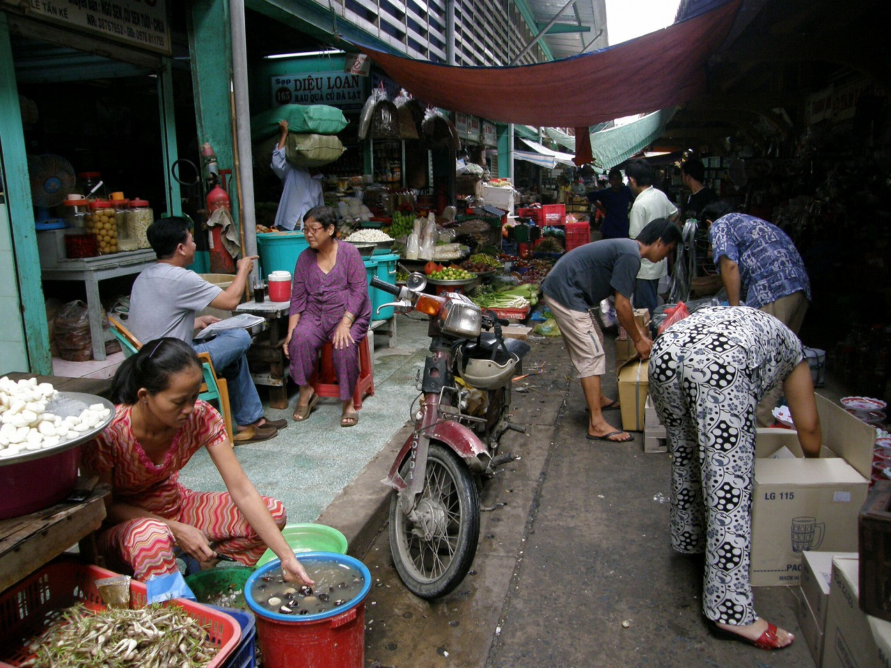 Chợ Lớn,チョロン市場,堤岸